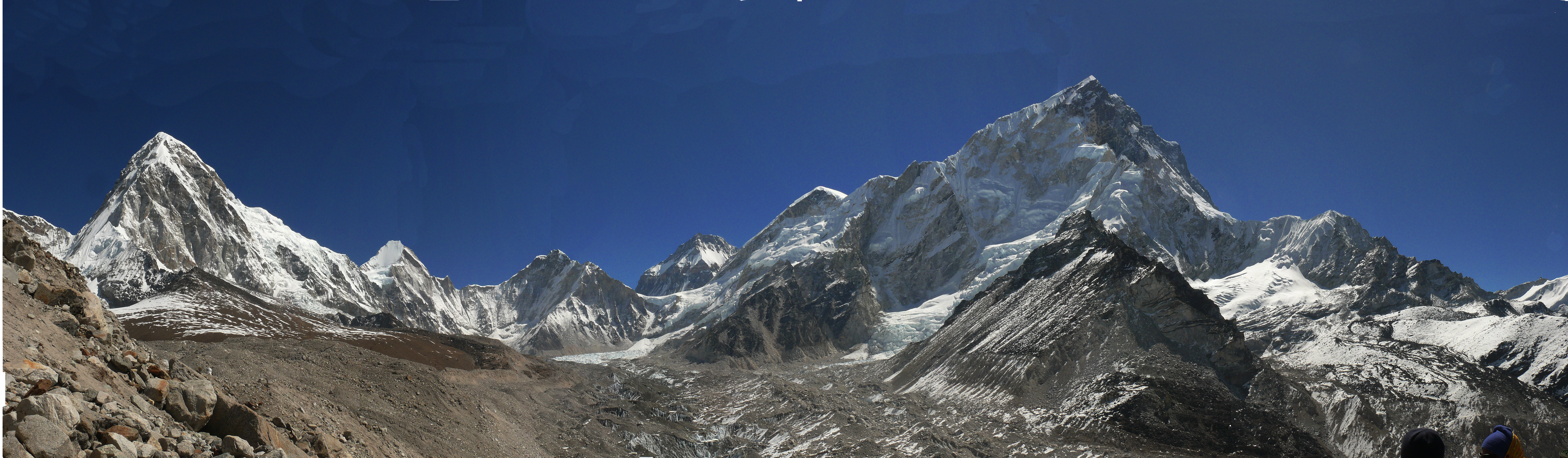 Panorama Khumbu Glacier